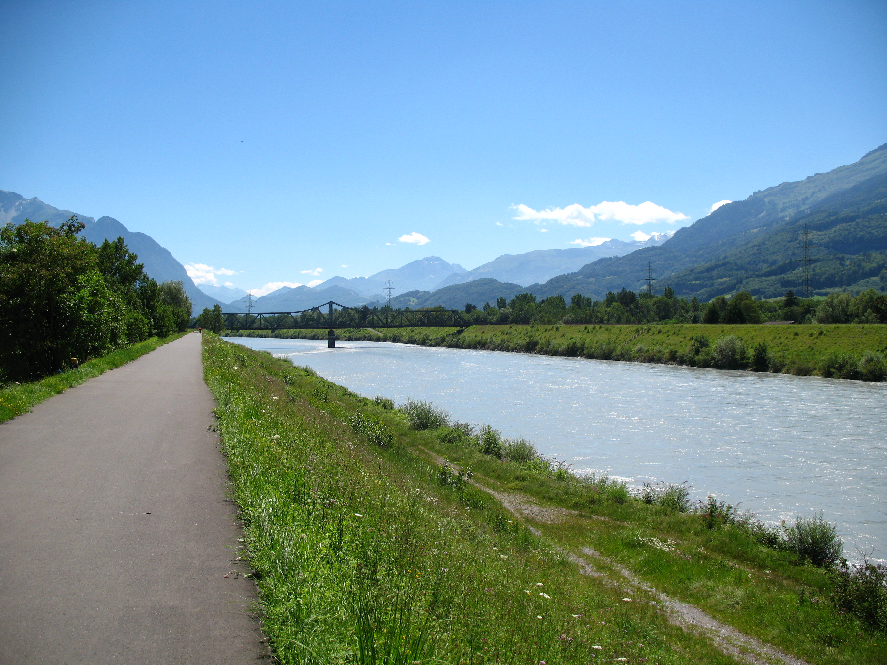 Rhine Causeway, Schaan/Vaduz, Liechtenstein